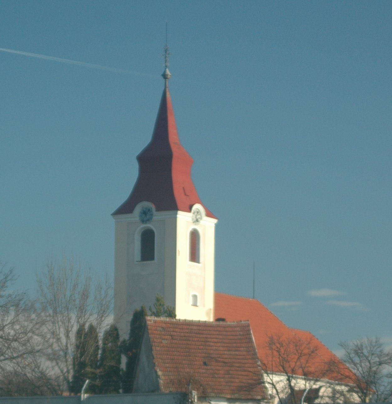 Church, Stráže, Western Slovakia